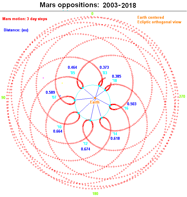 Motion of Mars relative to Earth, showing oppositions, 3 day step, with oppositions listed by year and closest distance.